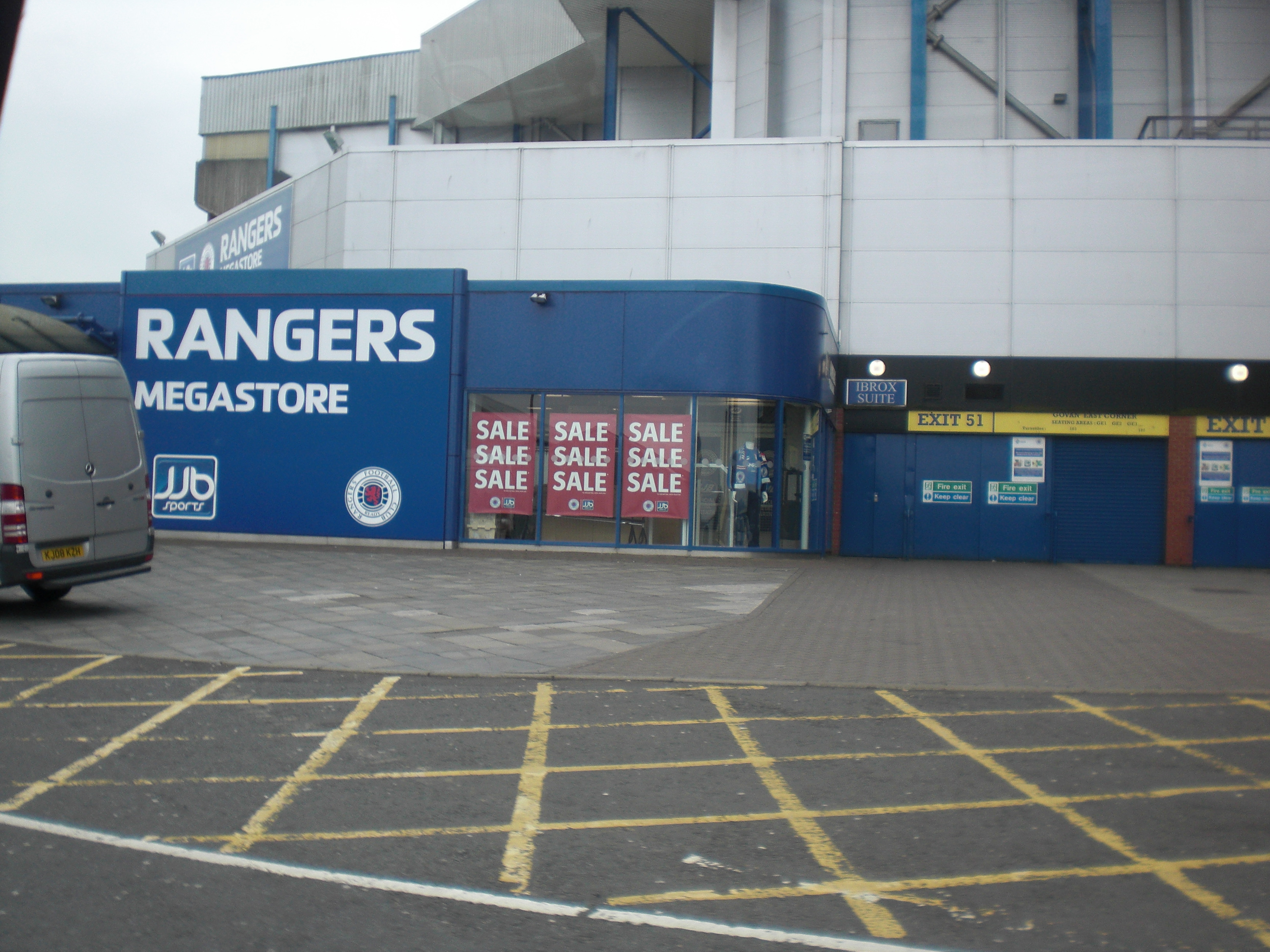 Glasgow Rangers FC Megastore at Ibrox Stadium